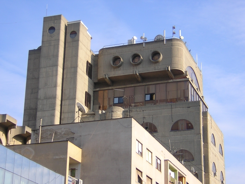 Central Post Office Skopje